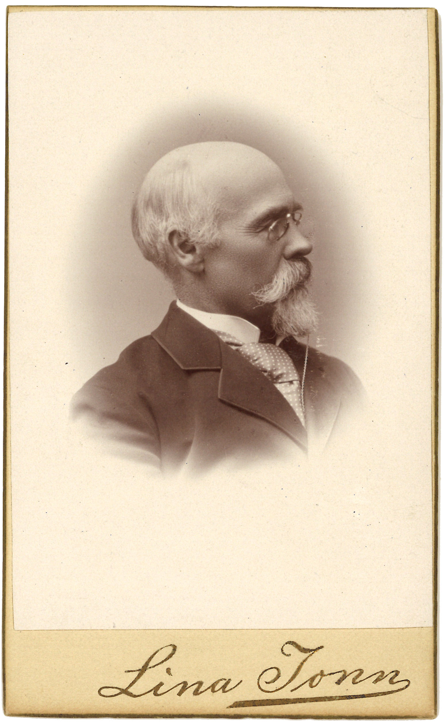 Elof Tegnér (1844-1900), Swedish librarian; head of the University library in Lund.